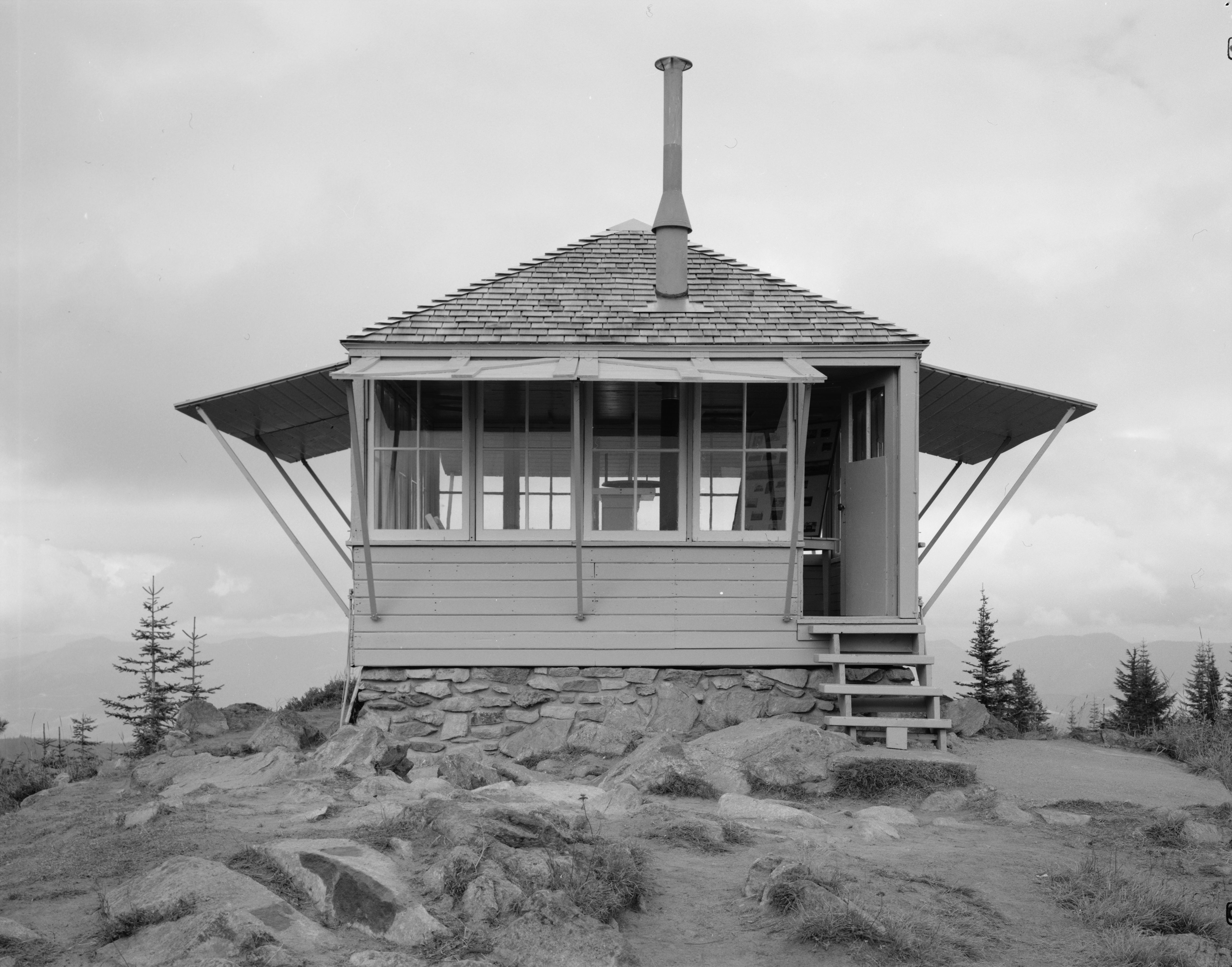 Suntop Lookout in Pierce County, Washington